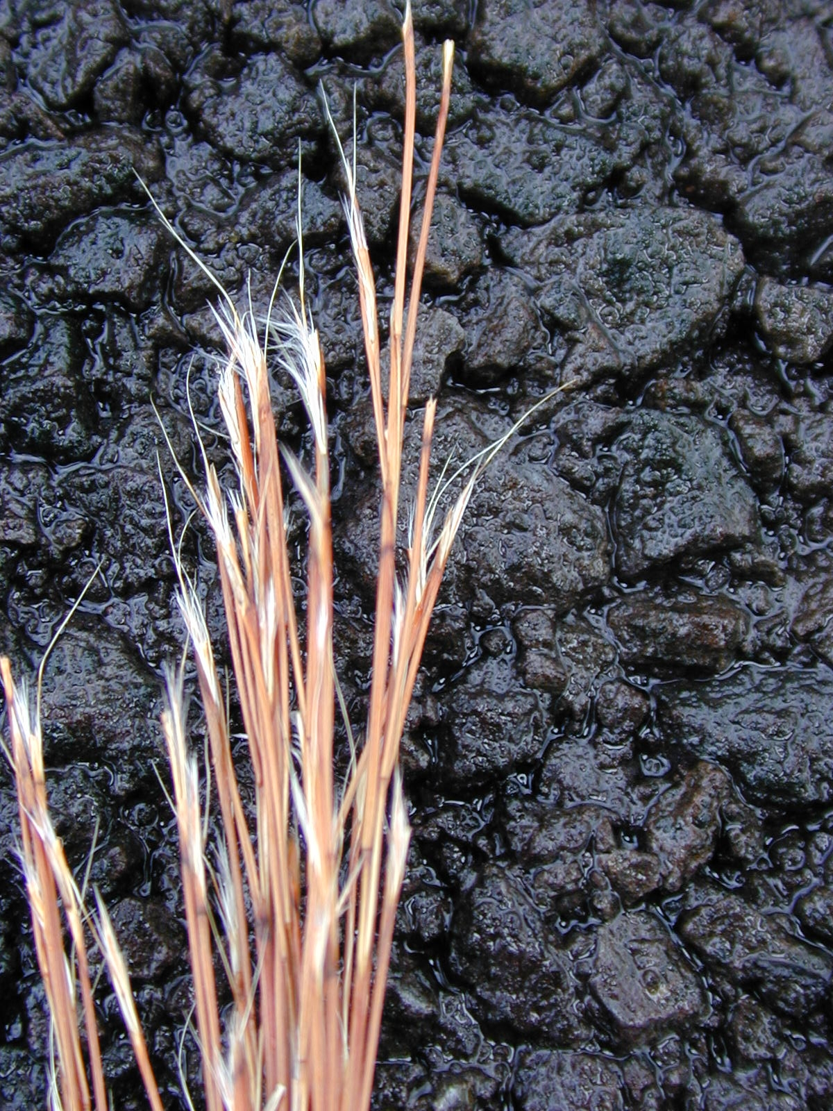 Schizachyrium condensatum (fruit). Location: Hawaii, Hilo